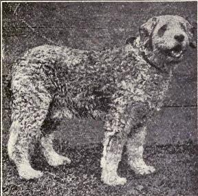 Italian Sheepdog from 1915